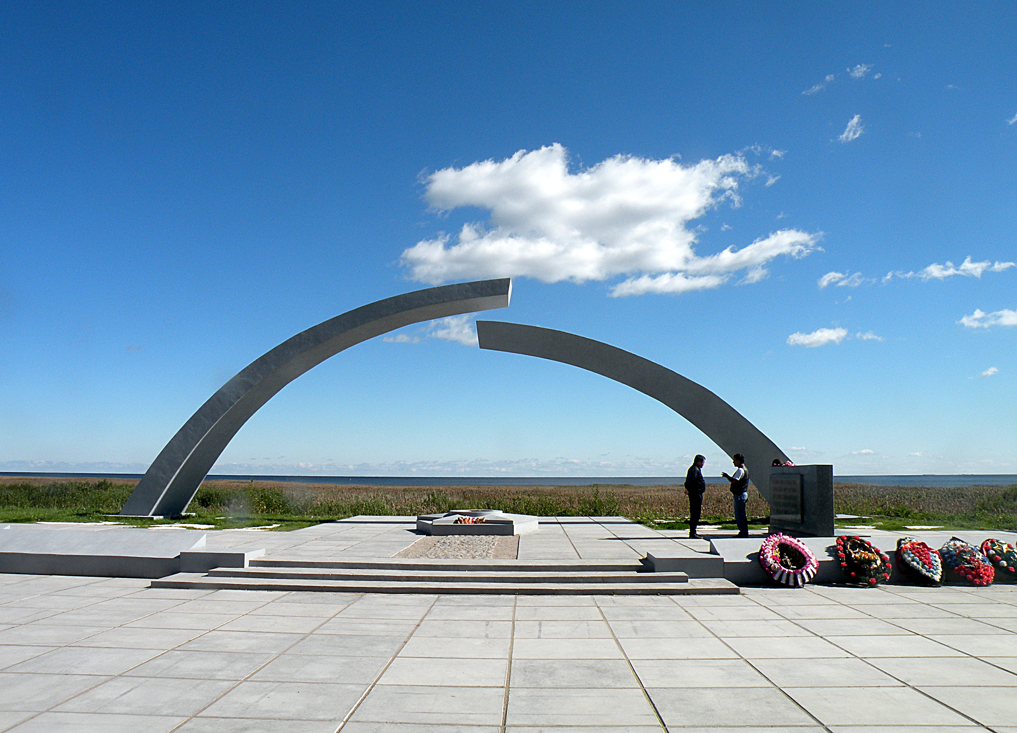 "Open circle" memorial